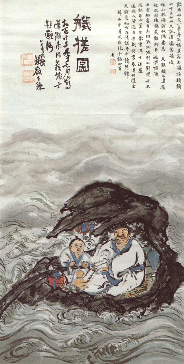 Embarking on a raft, color on paper, hanging scroll